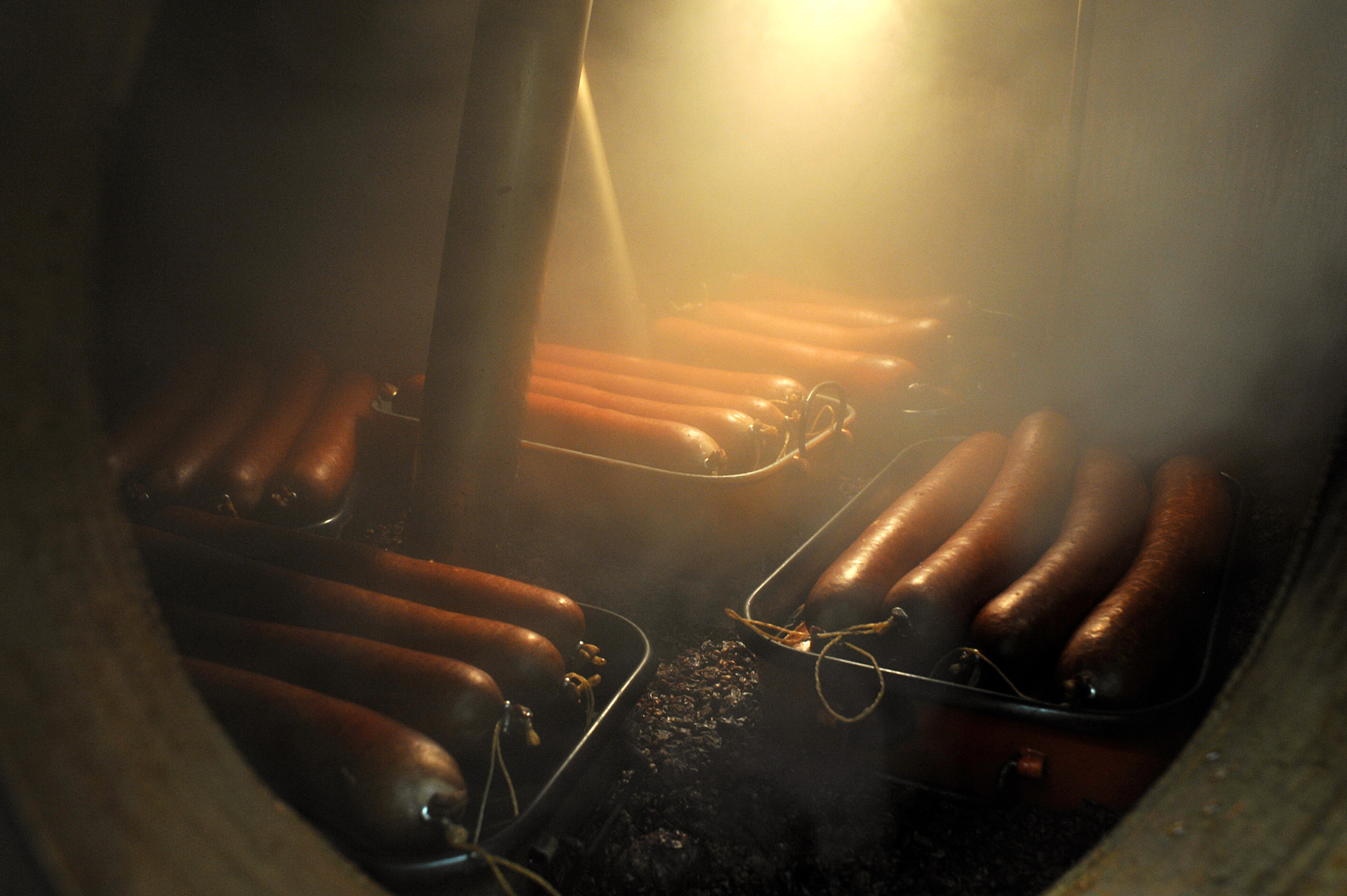 Treberwurst, a local speciality of the lake Biel vineyard region, in the pot still on the marc; Berne, Switzerland.